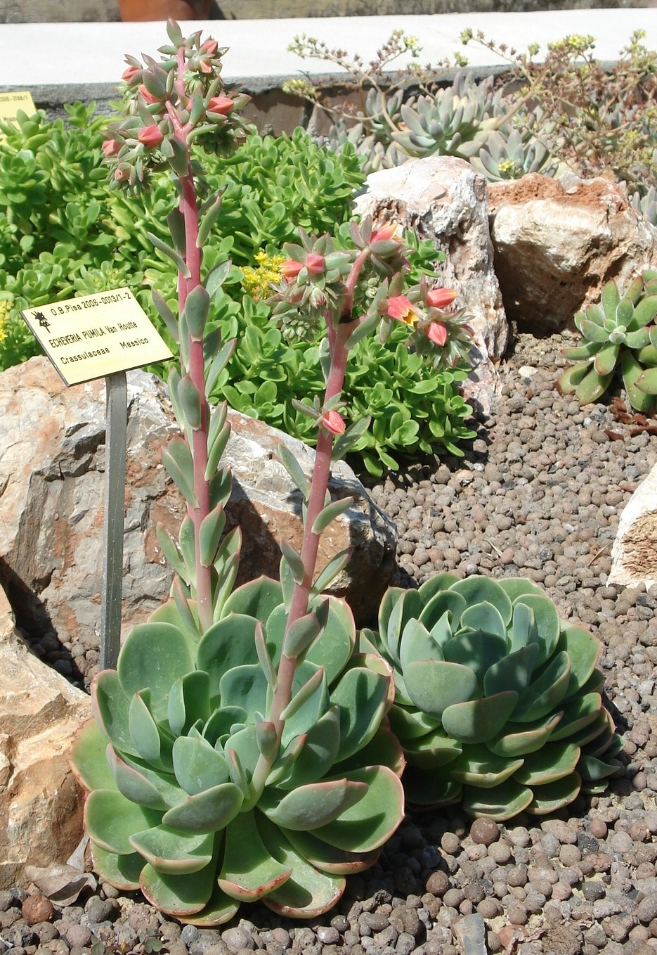 Echeveria pumila from Pisa bothanical garden